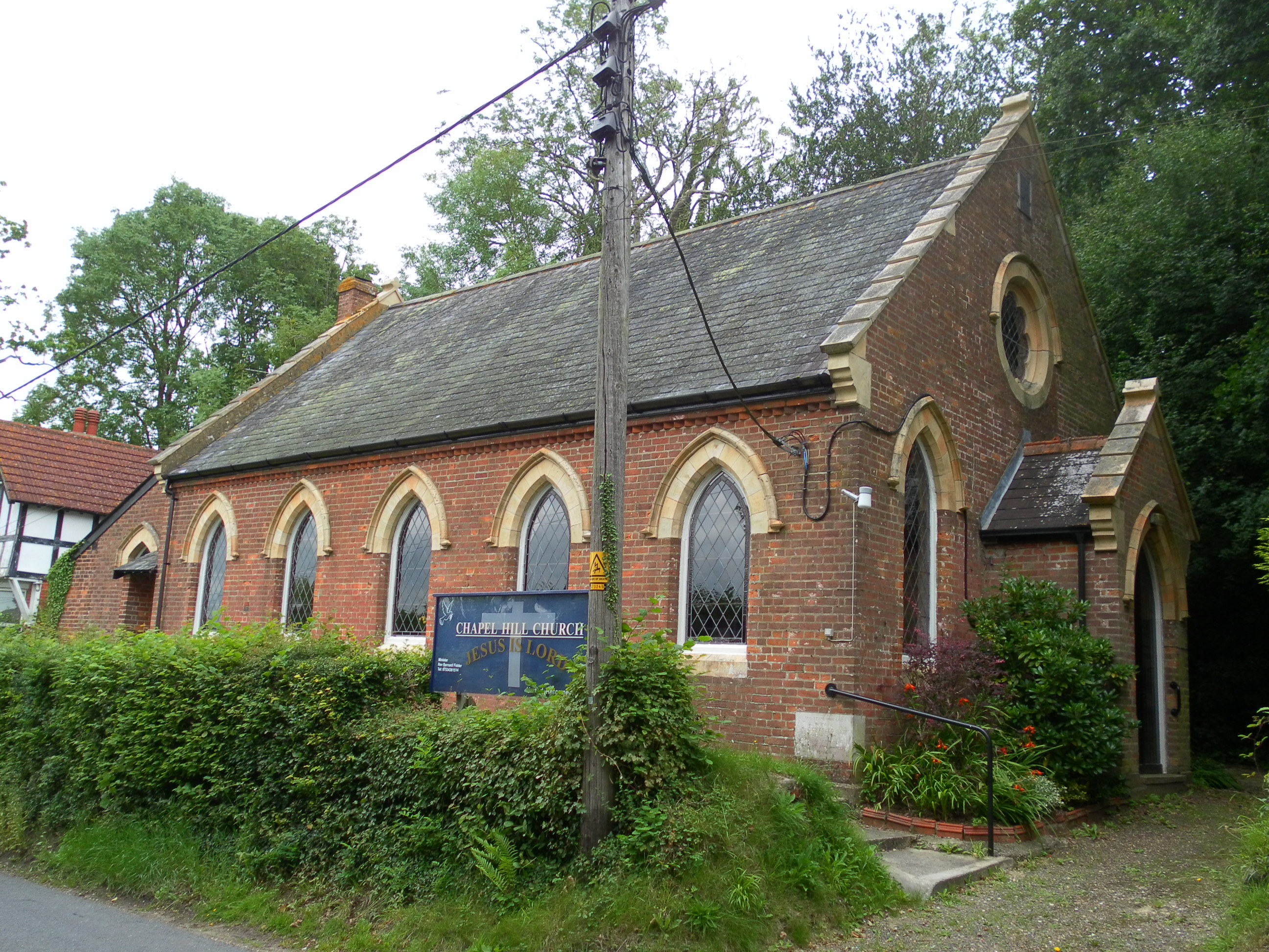 Sedlescombe United Reformed Church, Chapel Hill, Sedlescombe, District of Rother, England.